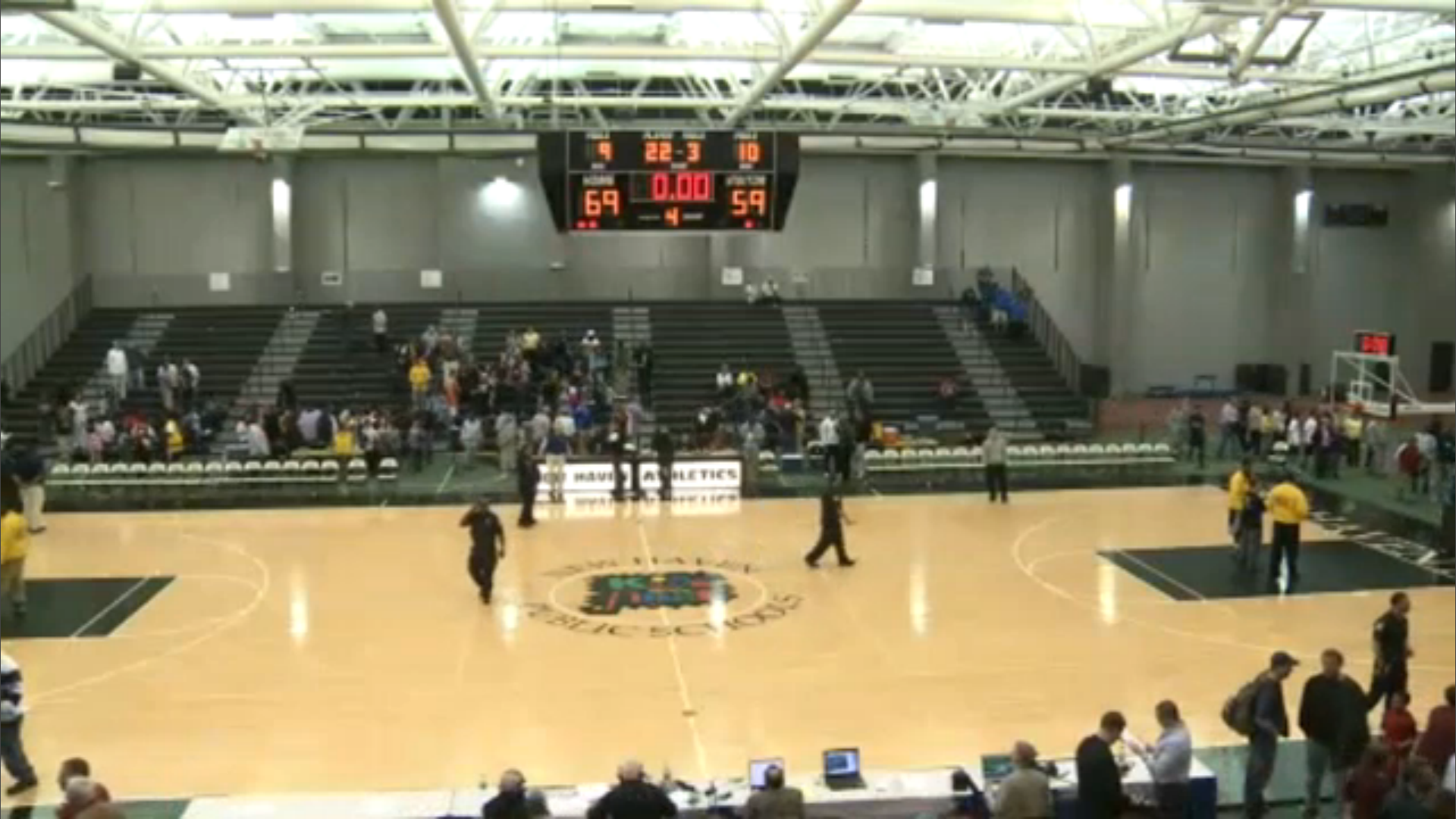 Floyd Little Athletic Center (New Haven Field House) after a high school basketball game, March 14, 2012